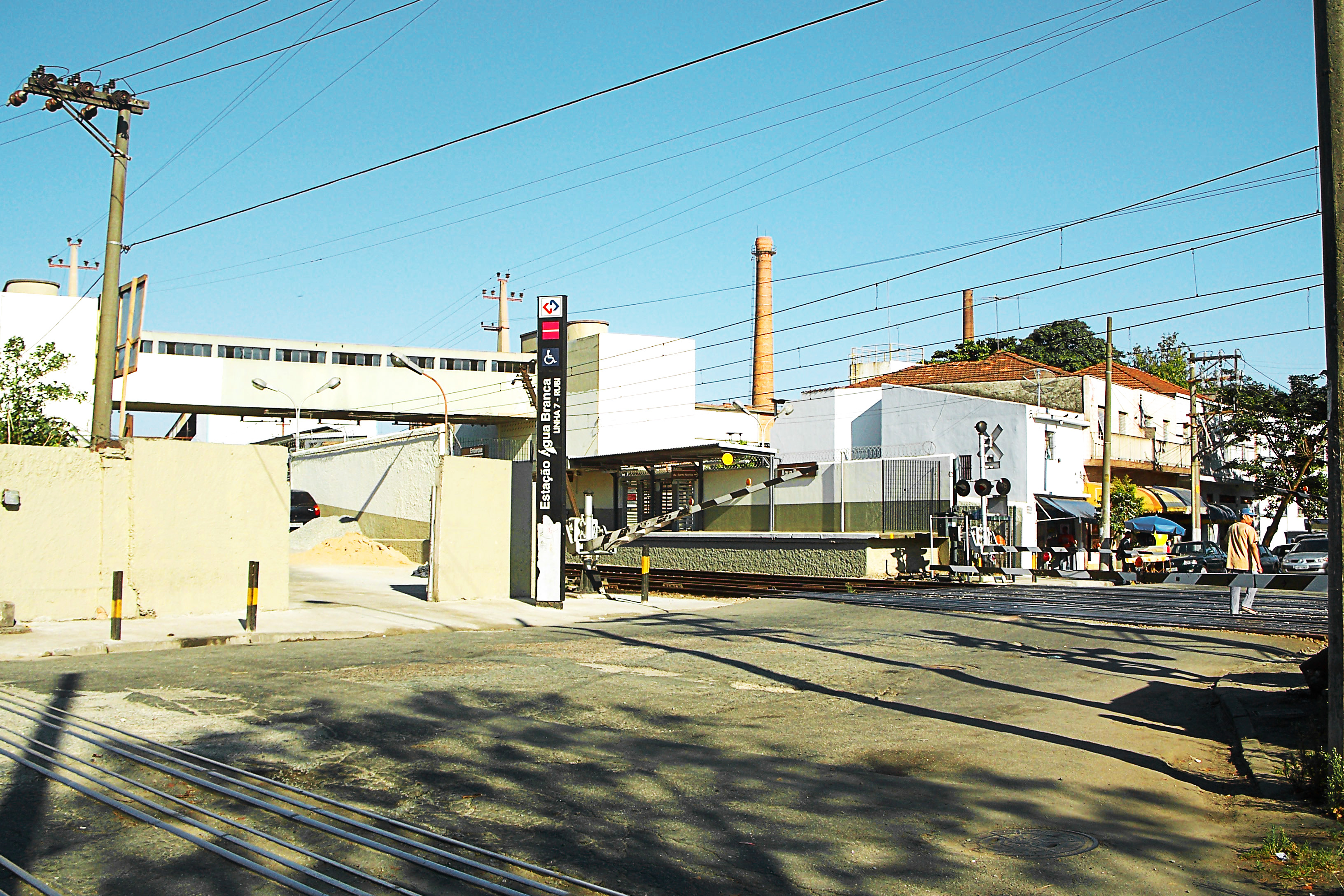 View of Água Branca station's façade, in São Paulo, Brazil.